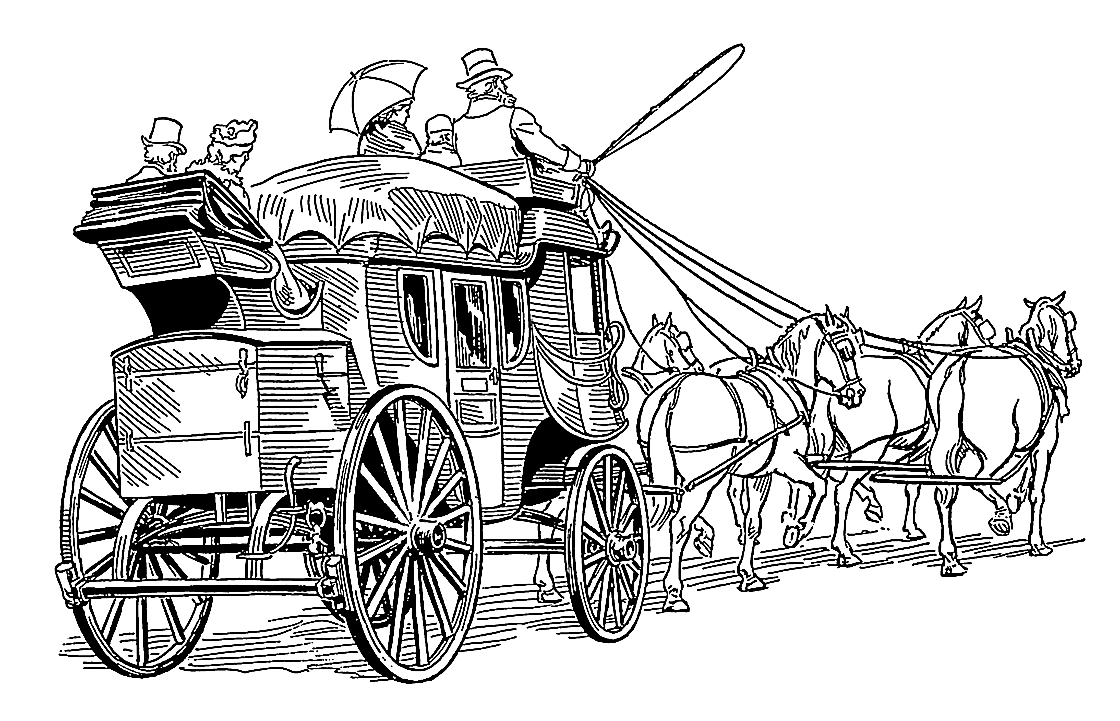 Line art drawing of a diligence.